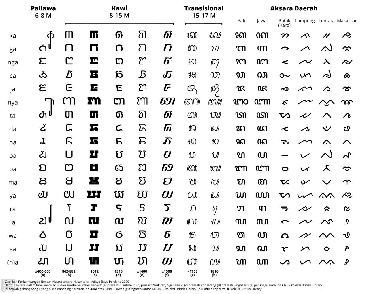 Indonesian script evolutionary chart - selected letters